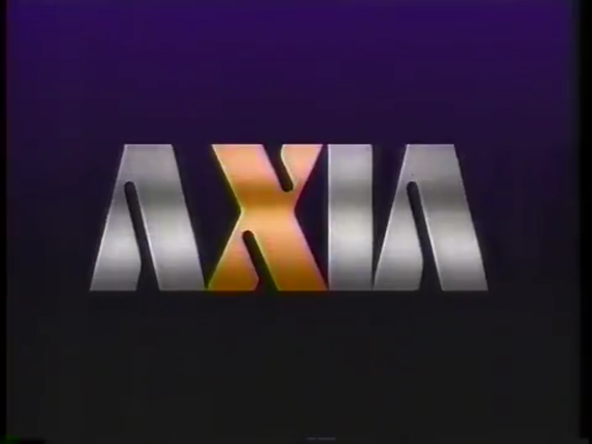 Logo of AXIA